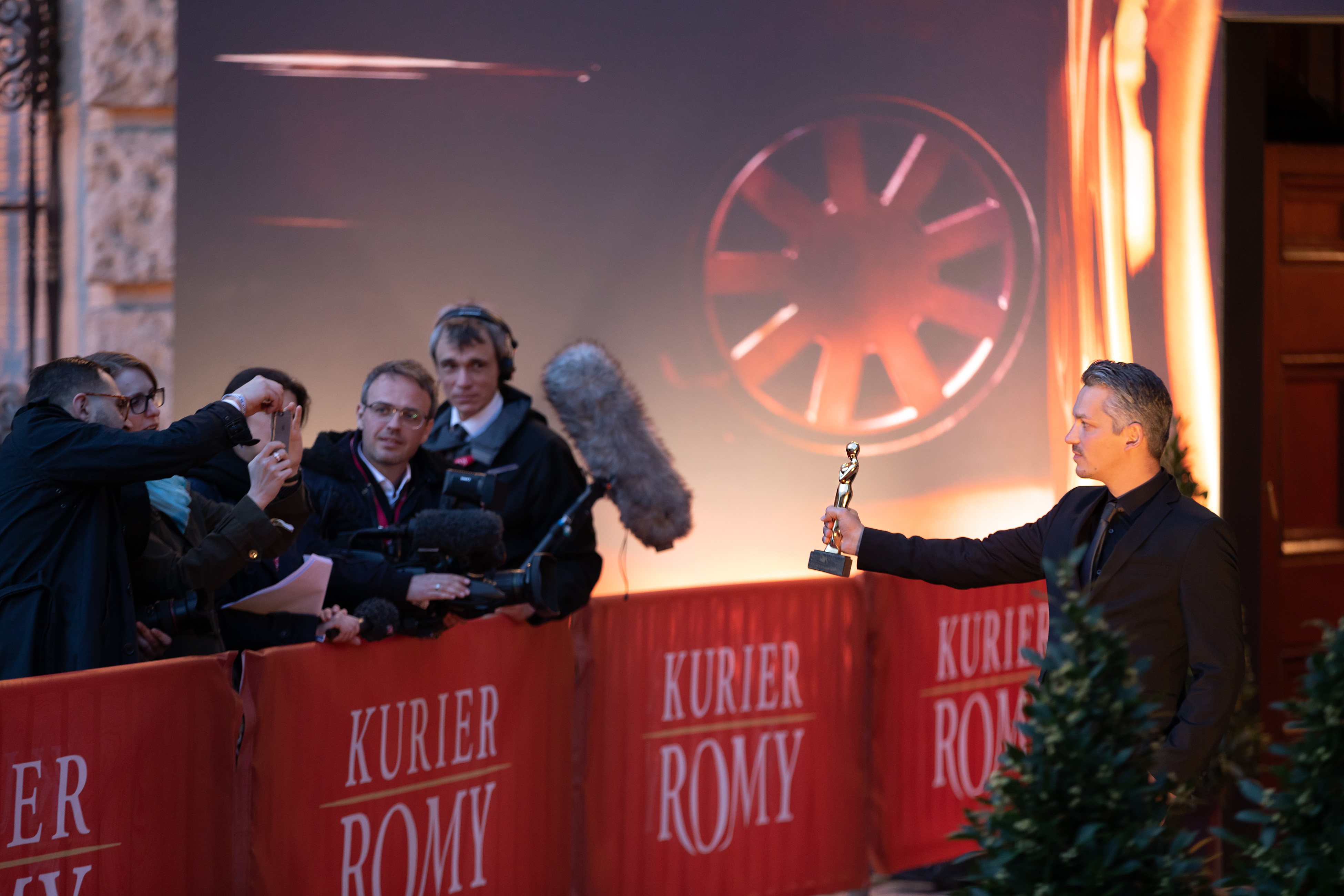 Faris Rahoma on the red carpet of the Romy TV awards 2018 at Hofburg Palace in Vienna, Austria.